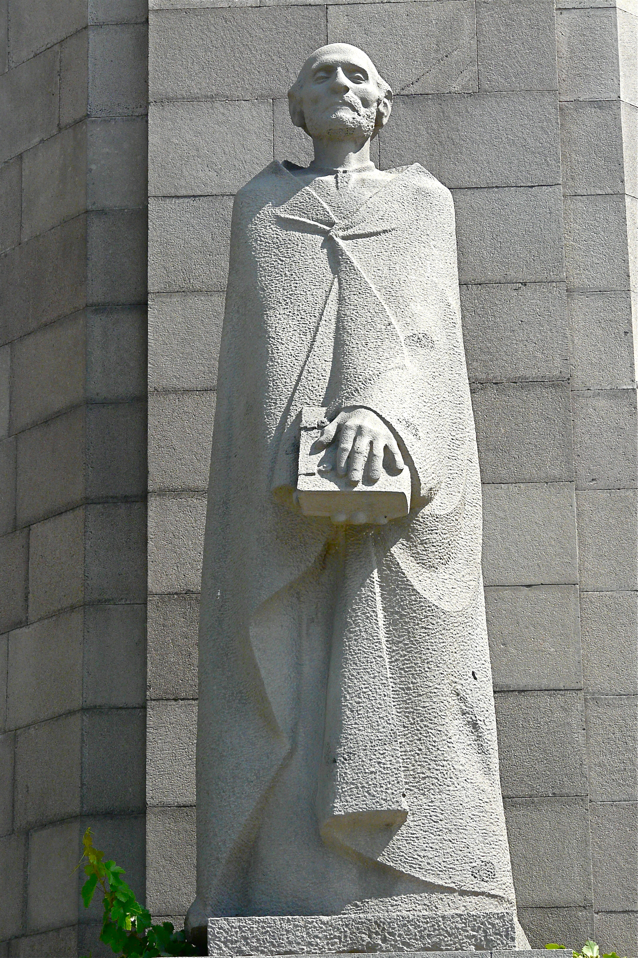 Mkhitar Gosh, façade of the Matenadaran, Yerevan, Armenia.